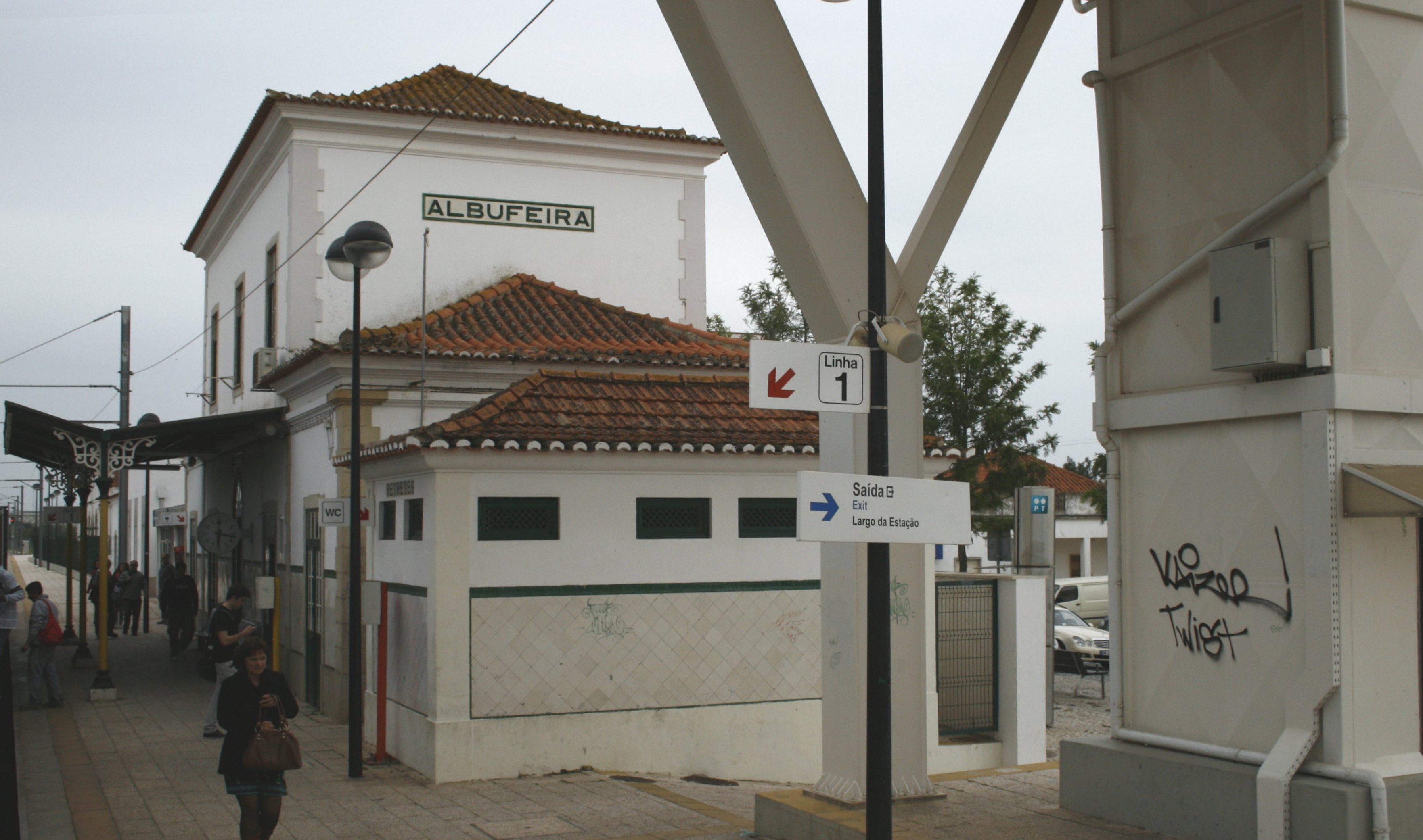 Albufeira Train Station, in the Algarve Line, in Portugal.